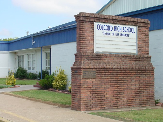 Sign outside of Colcord High School, Colcord, Oklahoma